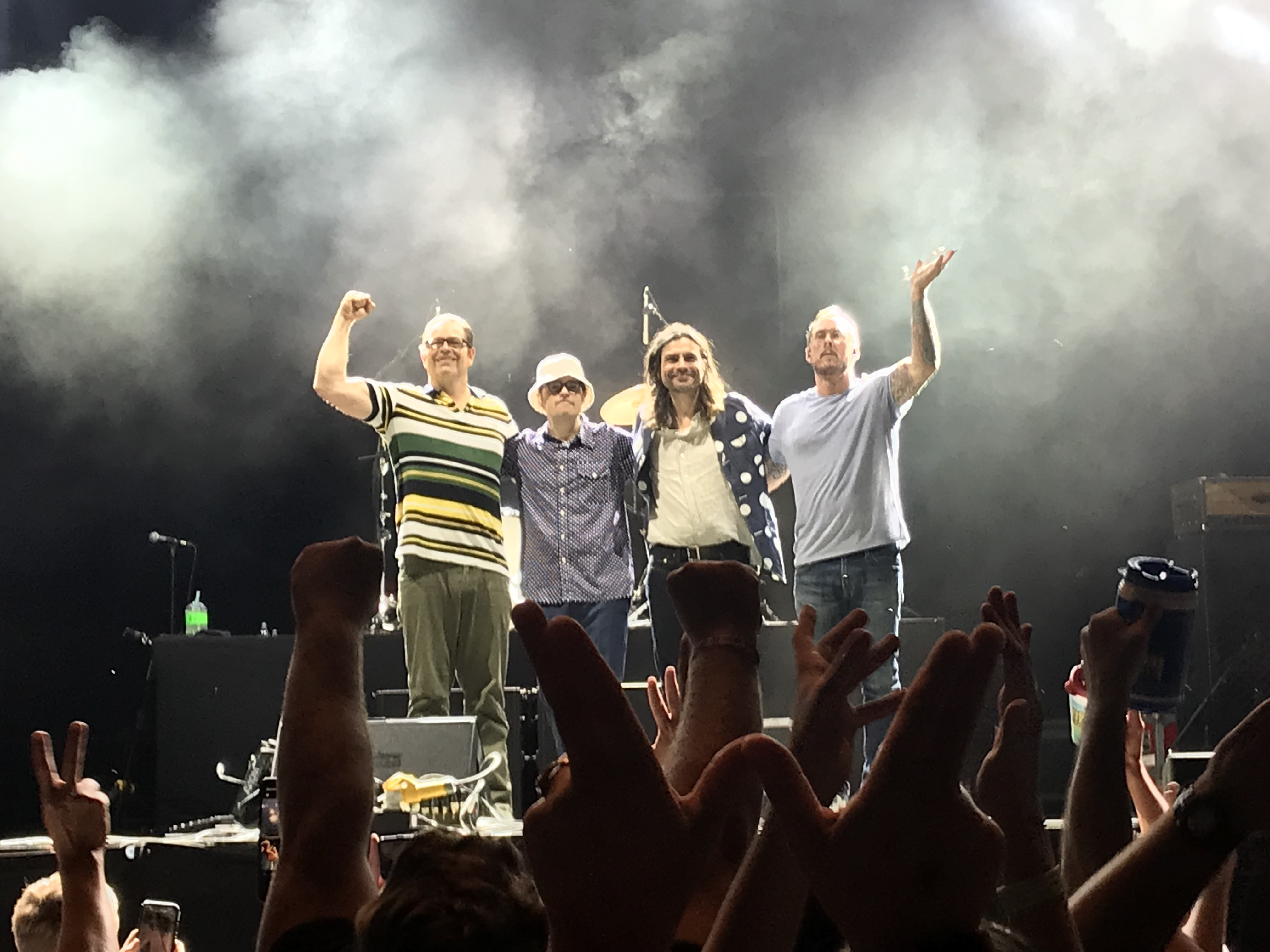 The band Weezer performing at Musikfest in Bethlehem, Pennsylvania on August 5, 2019.